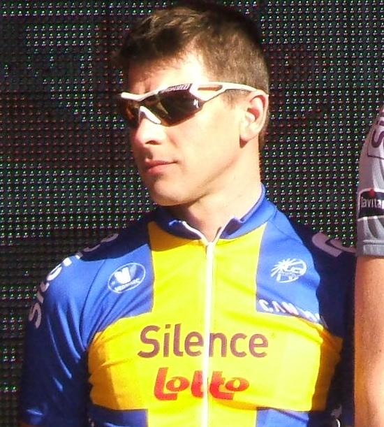 Named cyclist at the en:2009 Tour Down Under team presentation